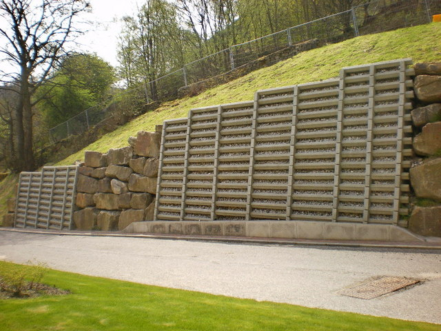 Retaining wall, Ramsden Wood Road